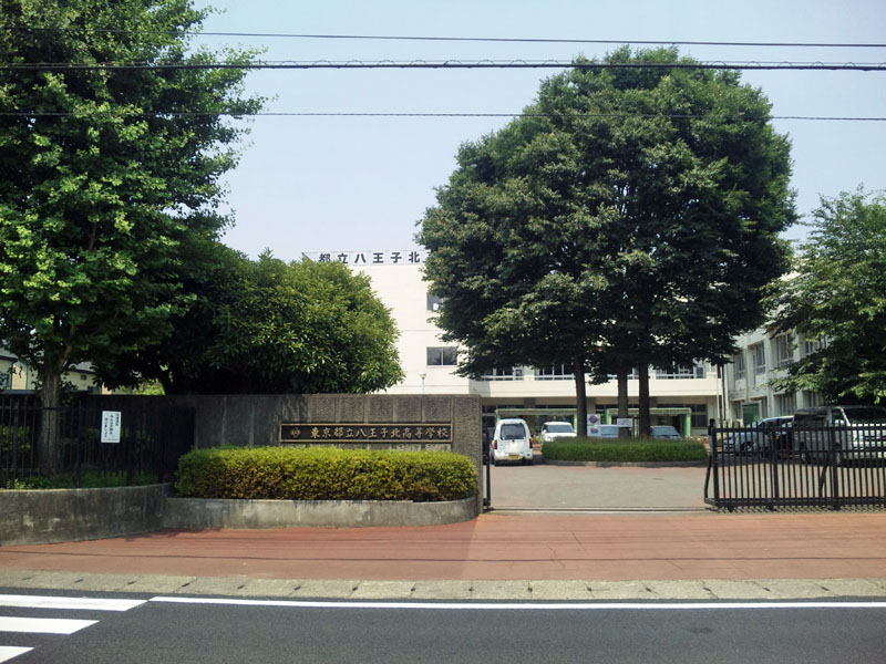 Tokyo Metropolitan Hachioji Kita High School in Hachioji, Tokyo, Japan